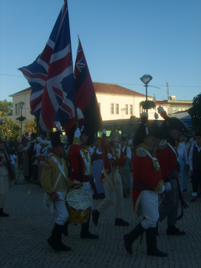 Batalha do Vimeiro (4), Lourinhã